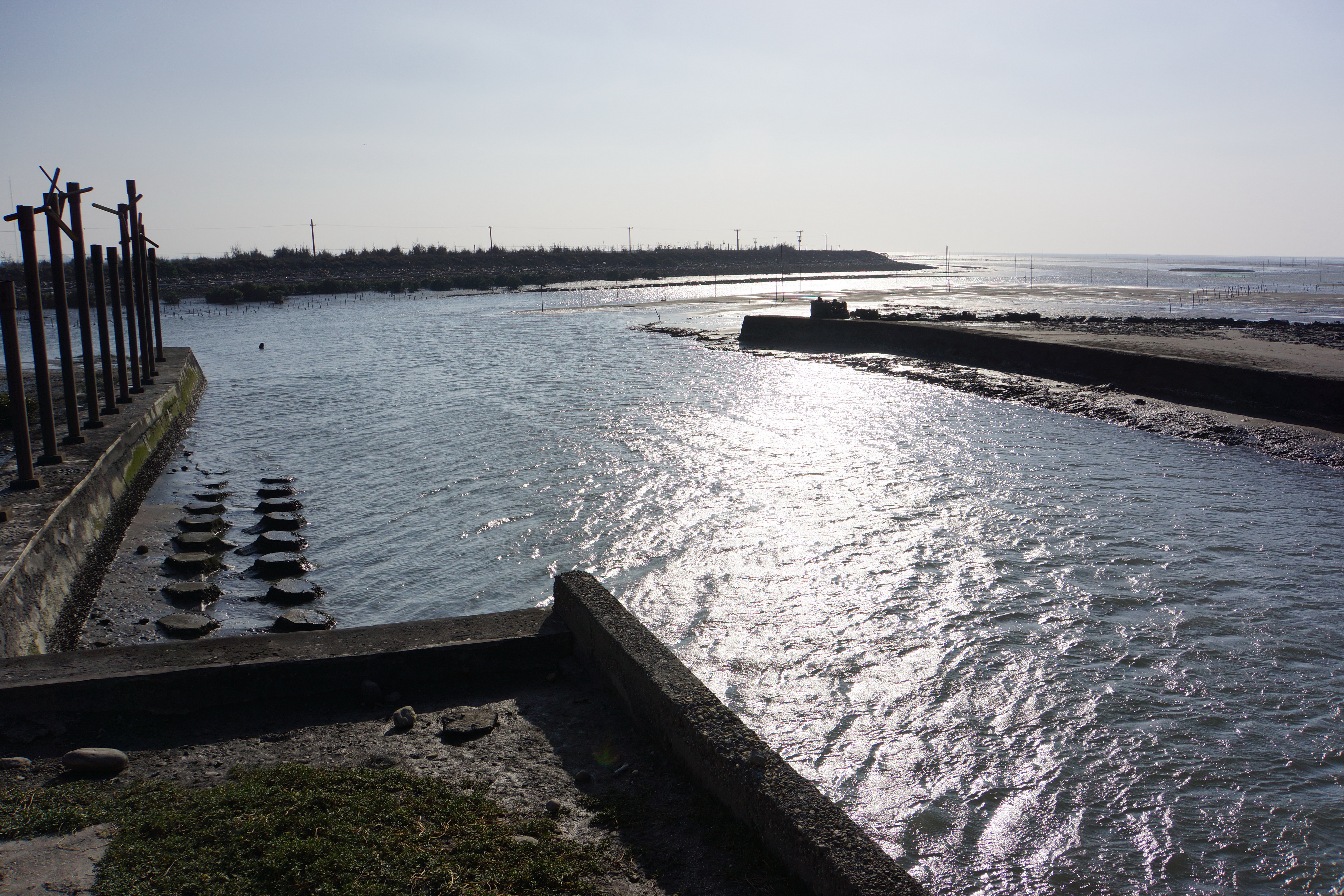 後港溪口 Mouth of Hougang River